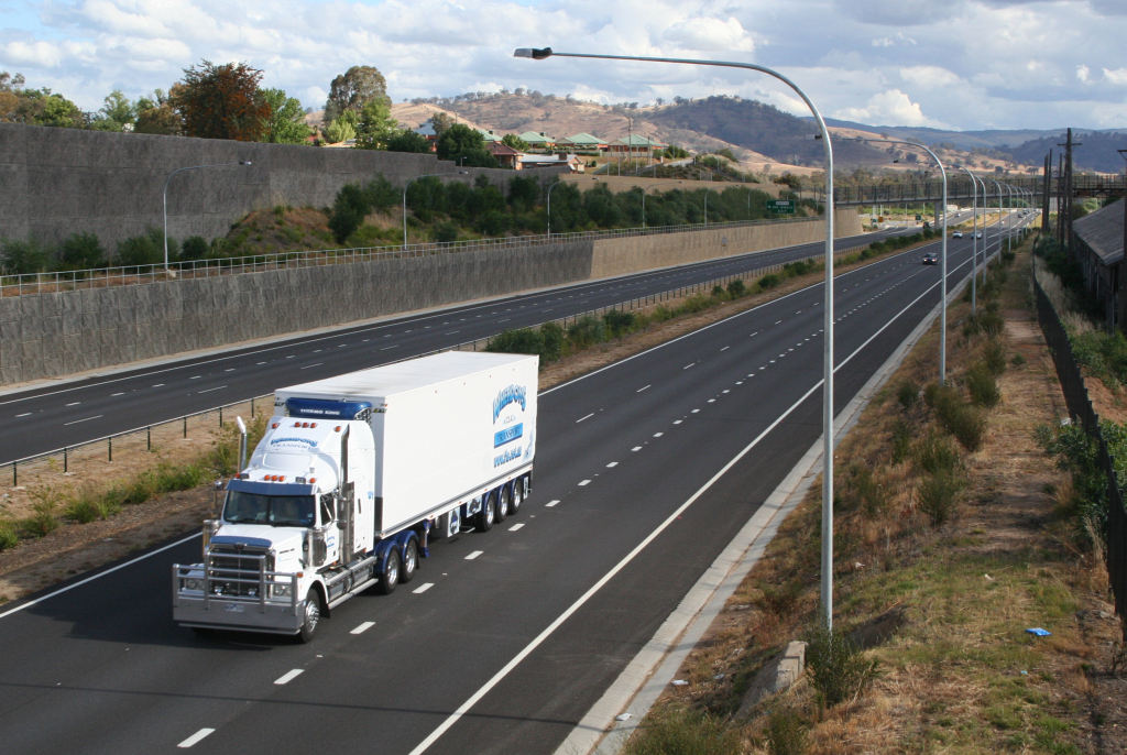 Hume Freeway looking south towards Victoria, running parallel to Albury railway station.